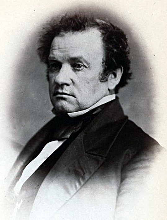 James Augustus Stewart, US Representative from Maryland